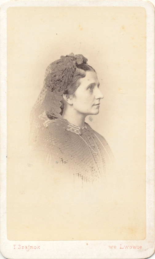 Jadwiga Sapieha